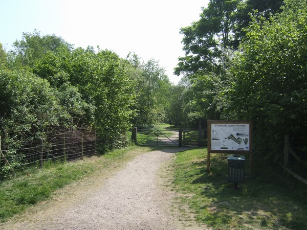 Site of RAF Bridgnorth Now the Stanmore Country Park. The RAF training camp was established in 1939 on the high ground above Bridgnorth. The camp finally closed in 1963. Recruits were marched up to the camp from the railway station. All that remains of the camp is a memorial on a chimney stack.